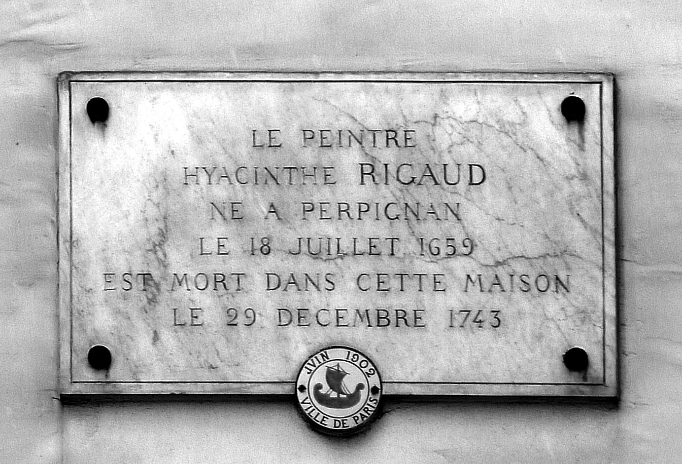 Hyacinthe Rigaud